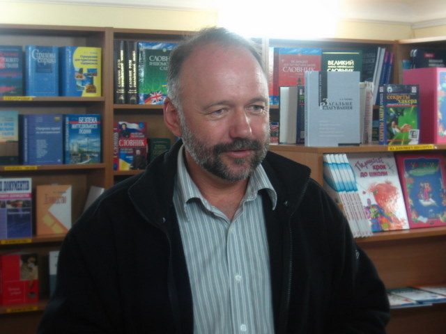 Andrey Kurkov, Ukrainian novelist.